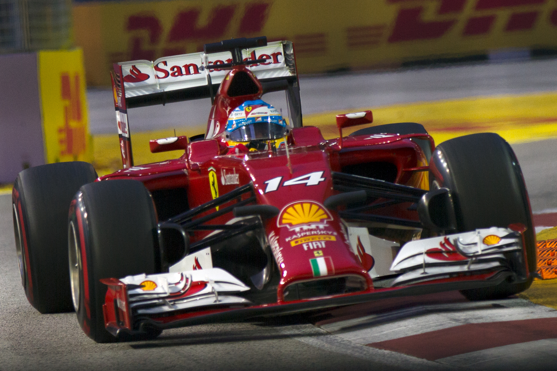 Formula One 2014 Rd.14 Singapore GP: Fernando Alonso (Ferrari)